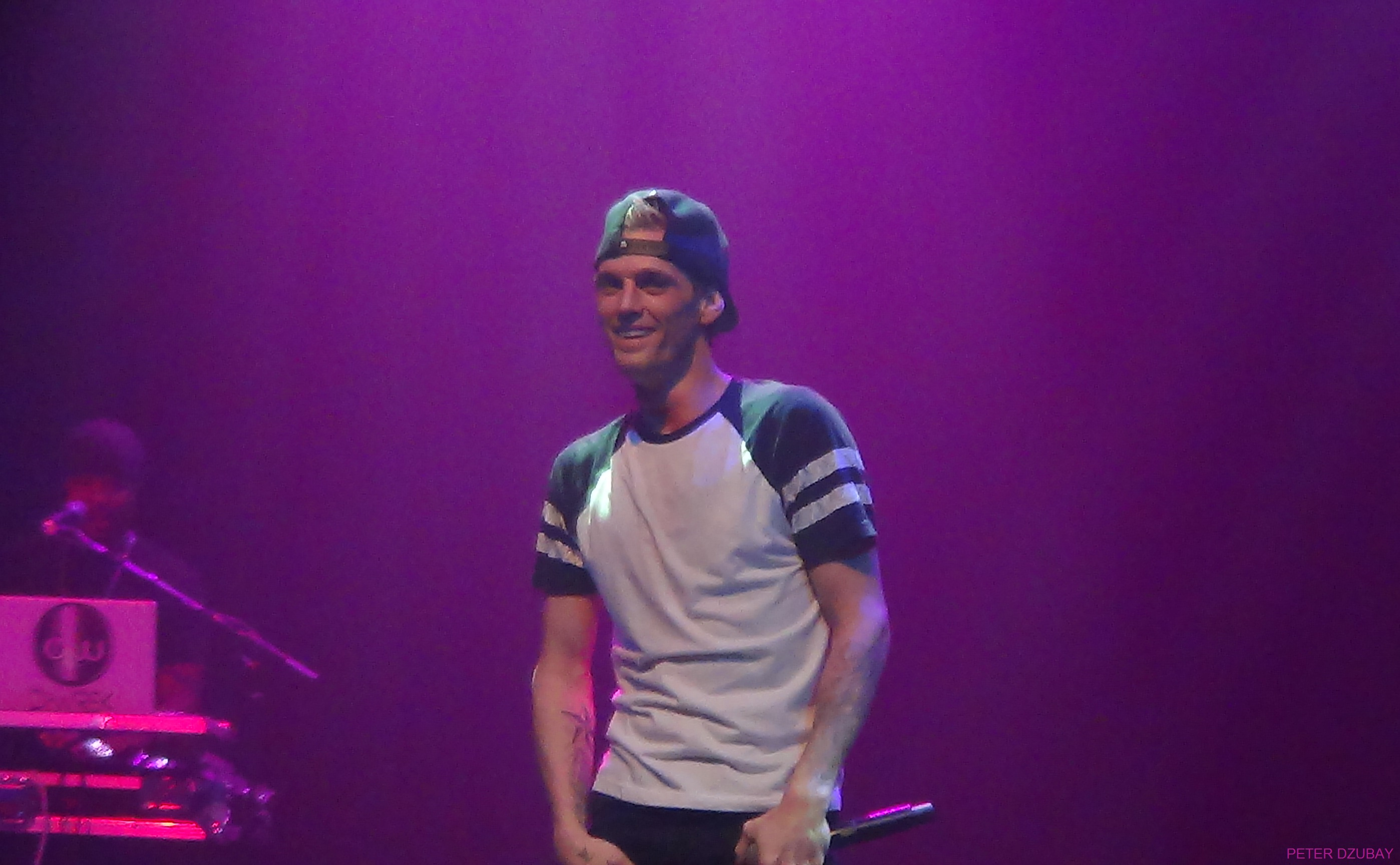 Aaron Carter performing at the Gramercy Theatre in New York, NY. Photo by Peter Dzubay.